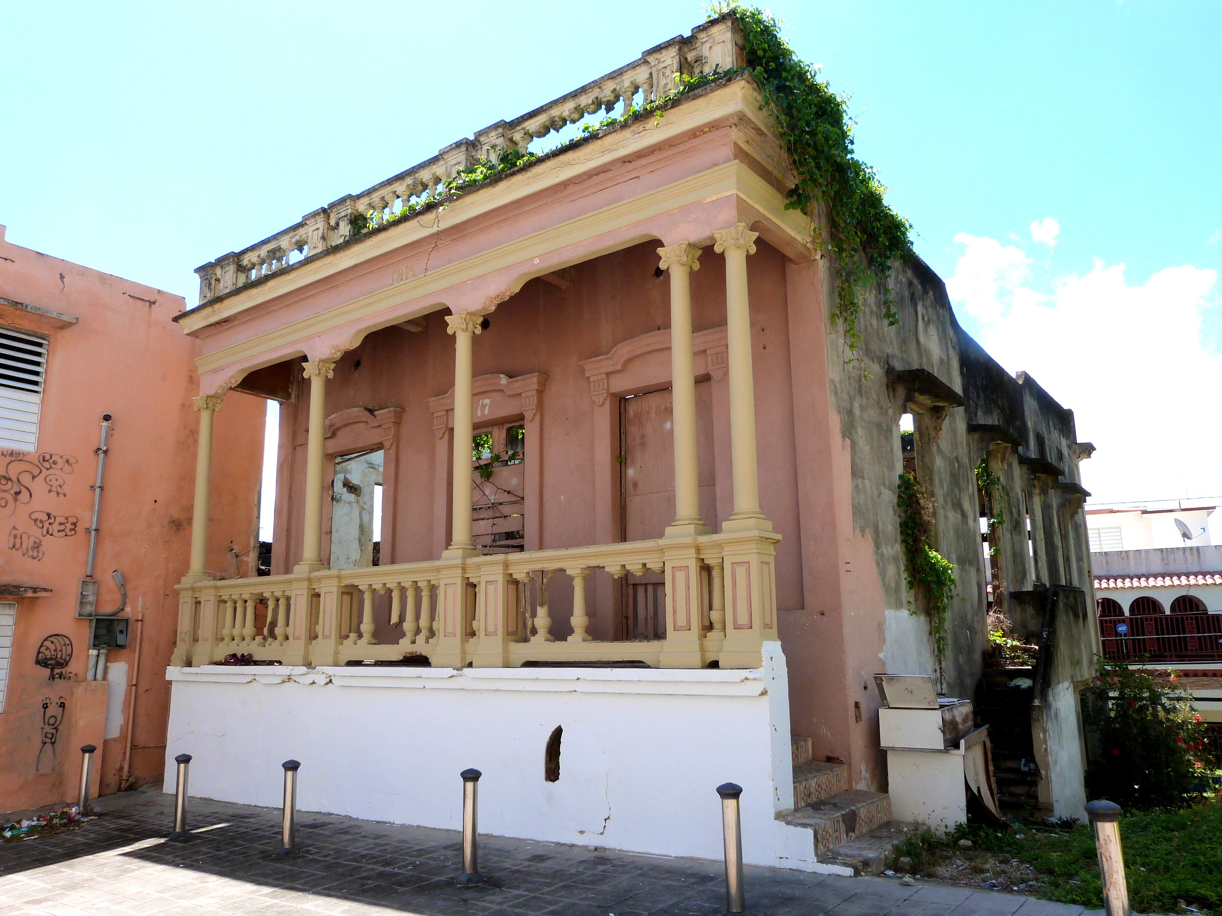 The historic Casa de la Diosa Mita (built 1914), located at Calle Fernández Juncos #251 in Arecibo, Puerto Rico, is listed on the U.S. National Register of Historic Places.